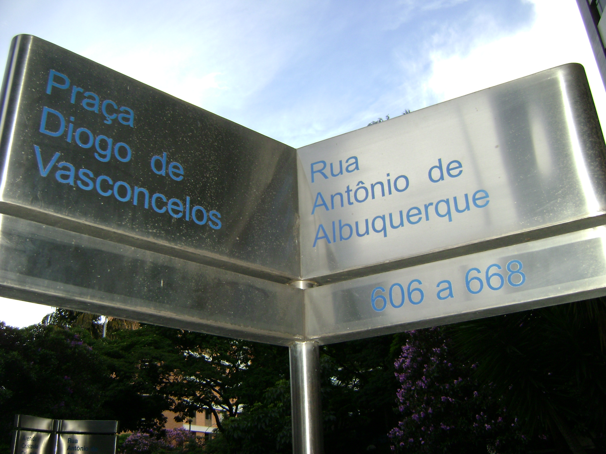 Praça Diogo de Vasconcelos (Praça da Savassi), em Belo Horizonte.